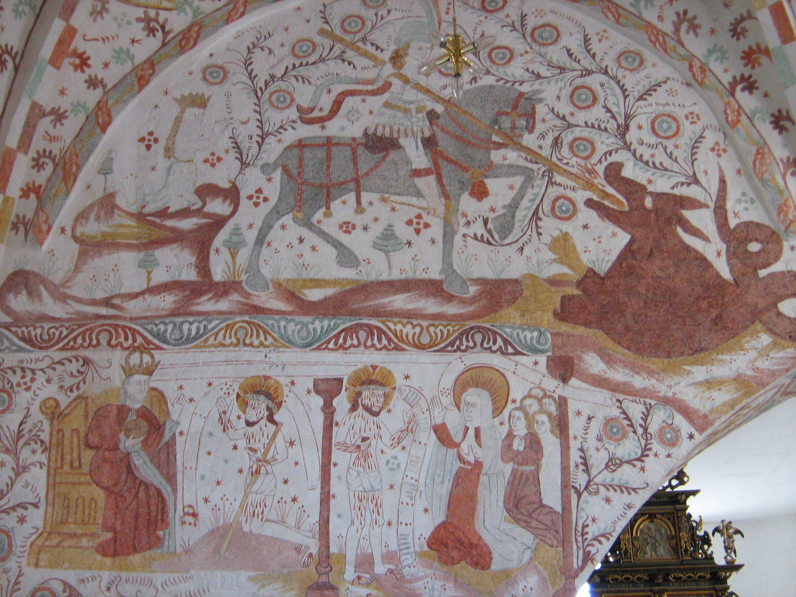 Fanefjord Church, Møn, Denmark. Fresco of George and the dragon.